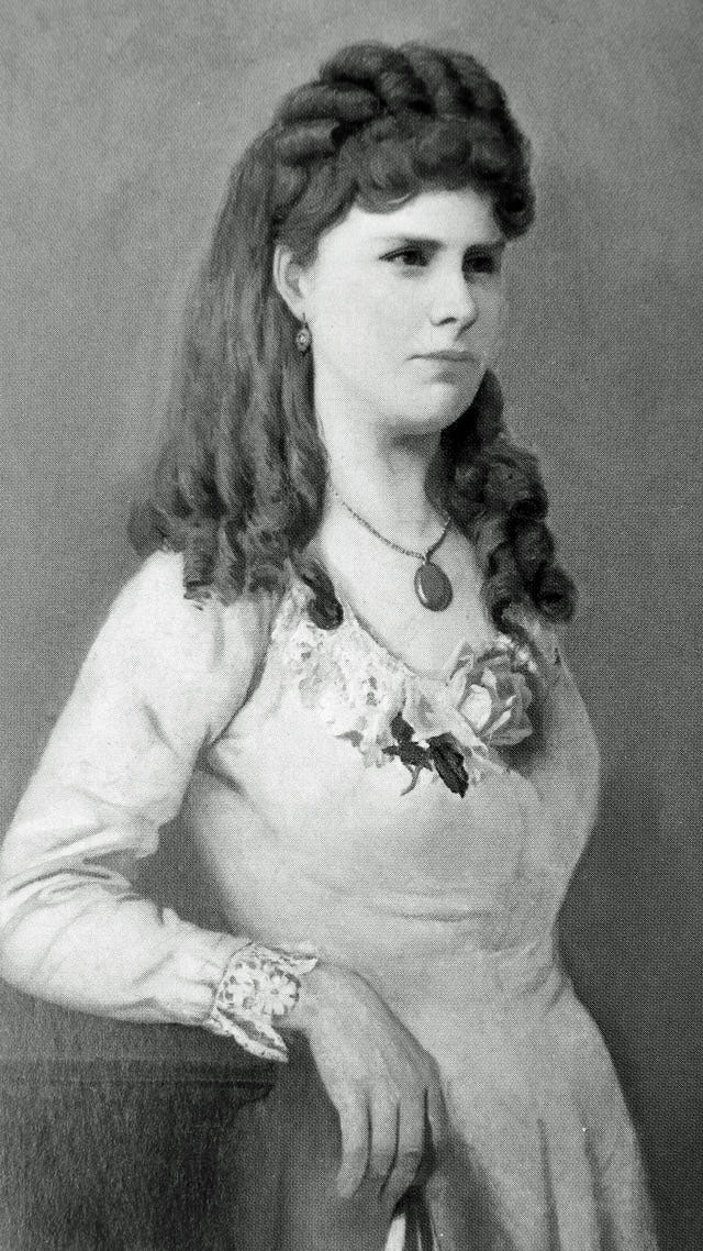 portrait of Emma Lavinia Gifford